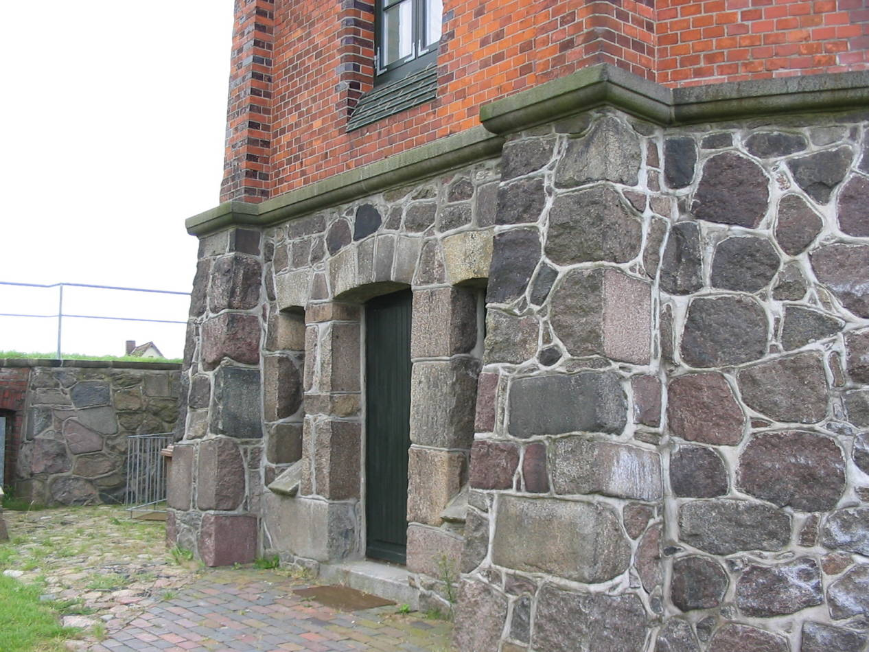 Watertower Schwerin-Neumühle (Germany), photo 2007